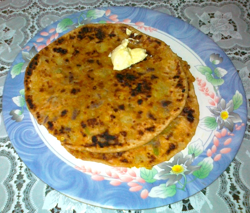 Aloo Paratha is a typical North Indian breakfast dish. It is a form of potato roti.